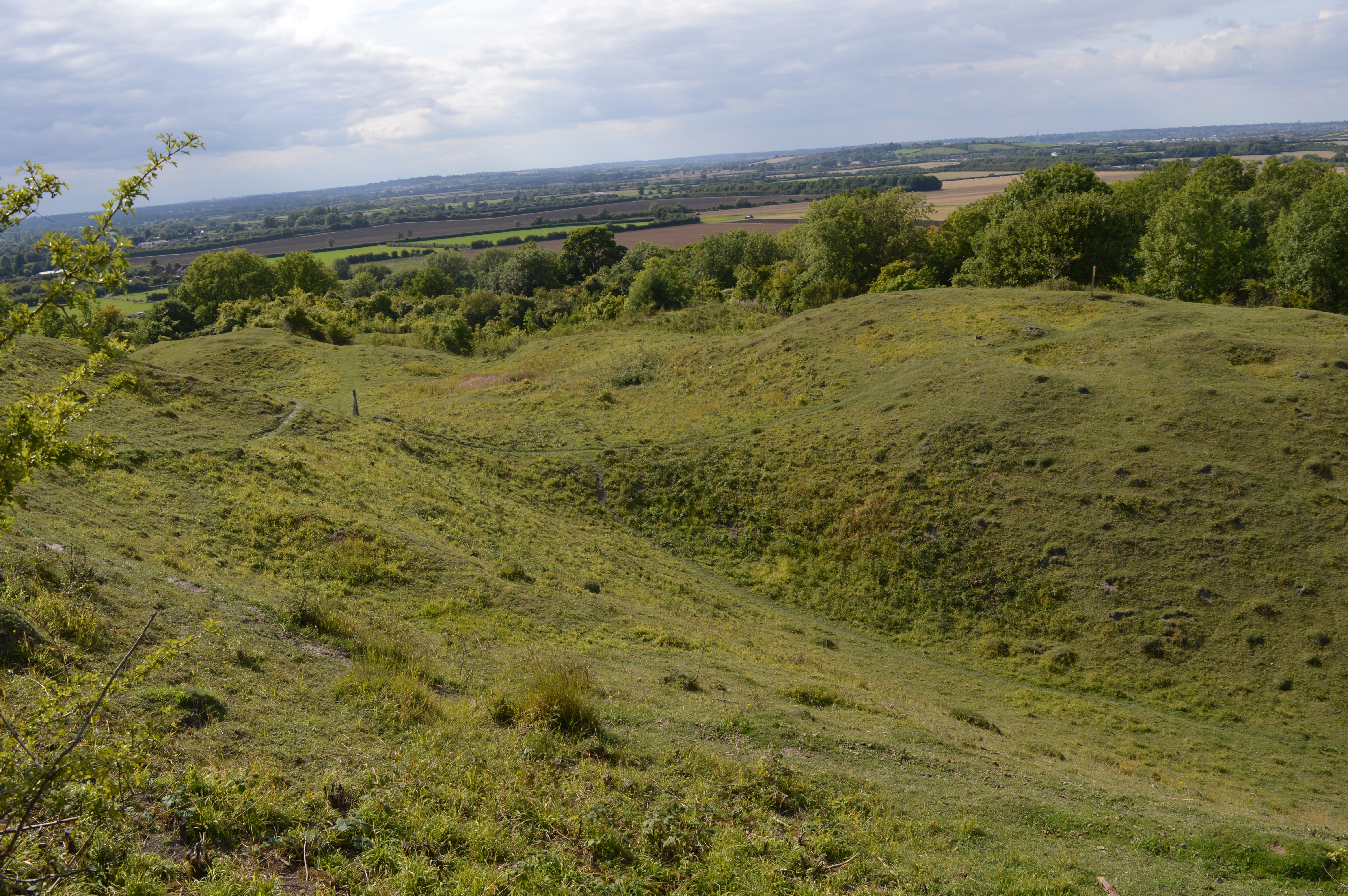 Totternhoe Knolls, a Site o Special Scientific Interest in Totternhoe, Bedfordshire. It is part of Totternhoe nature reserve, which is managed by the Wildlife Trust for Bedfordshire, Cambridgeshire and Northamptonshire